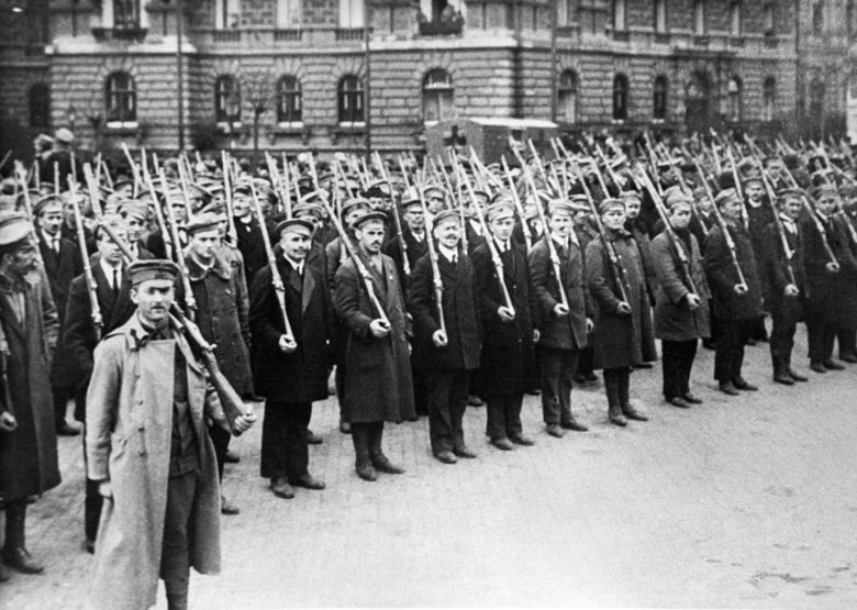 Armed workers in front of Andrássy 94, Budapest. On the 23rd of April, 1919. During the communist takeover.